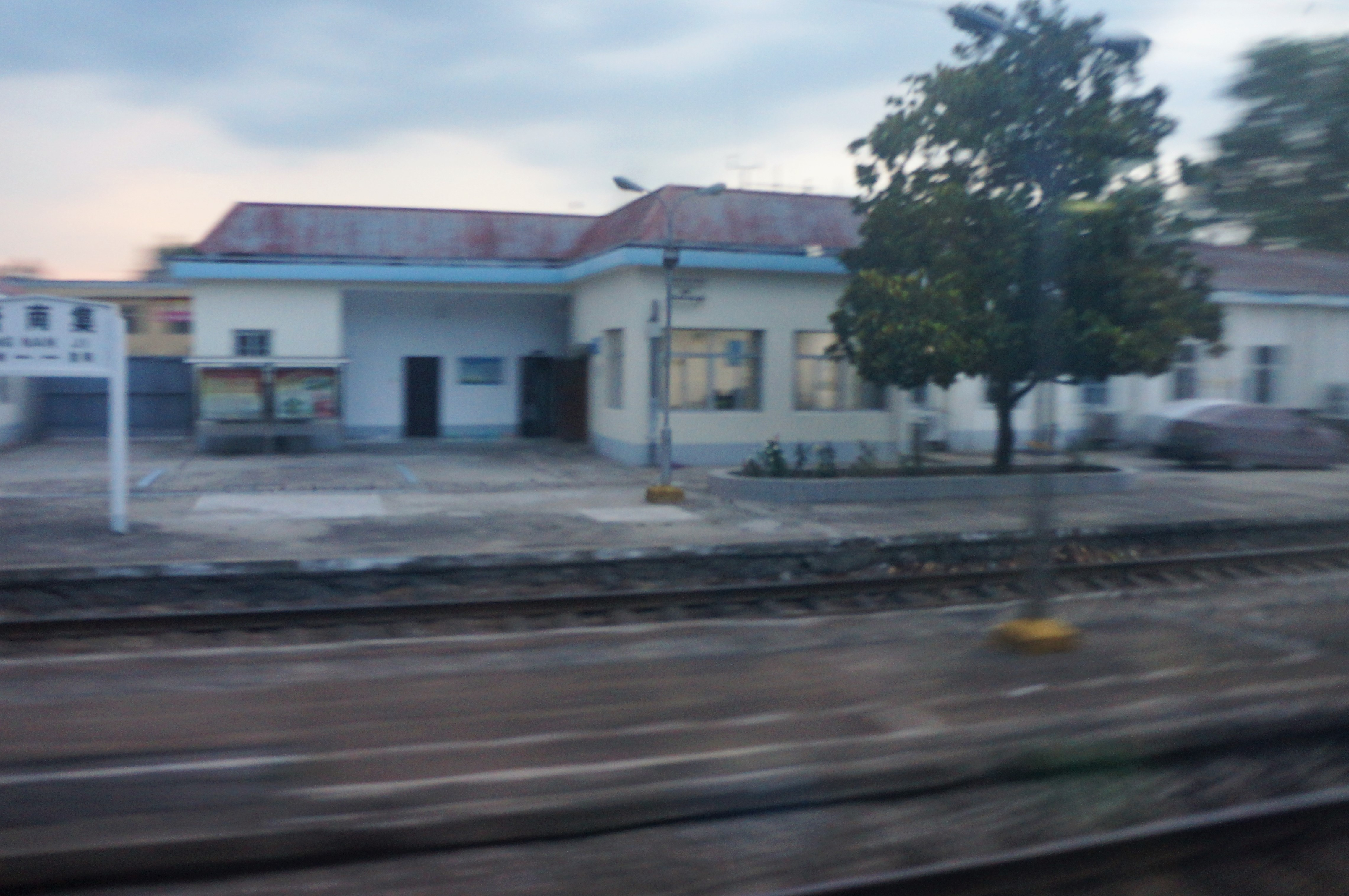 201806 Tangnanji Station